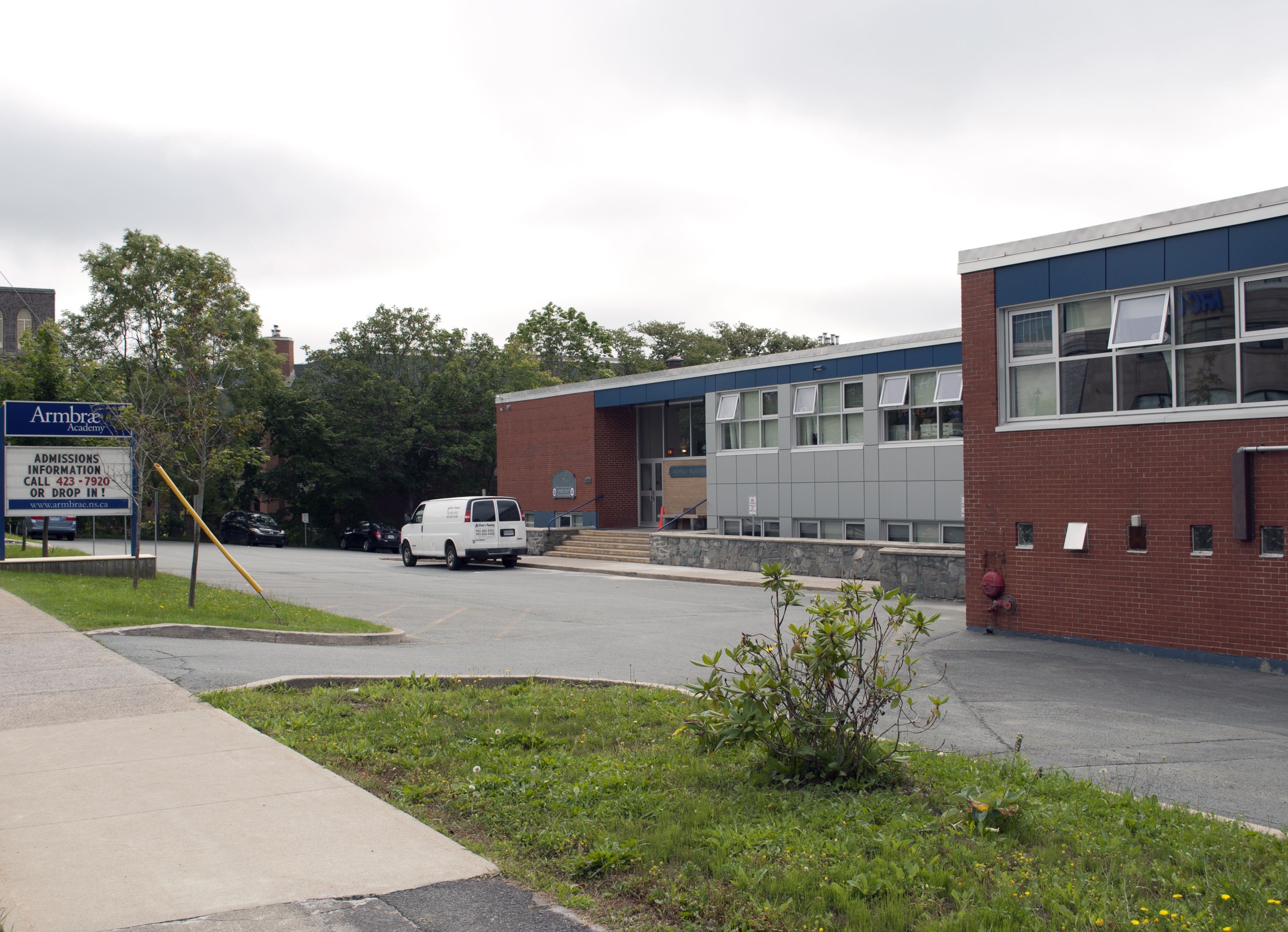 Armbrae Acadamy shot looking south west on Oxford Street.